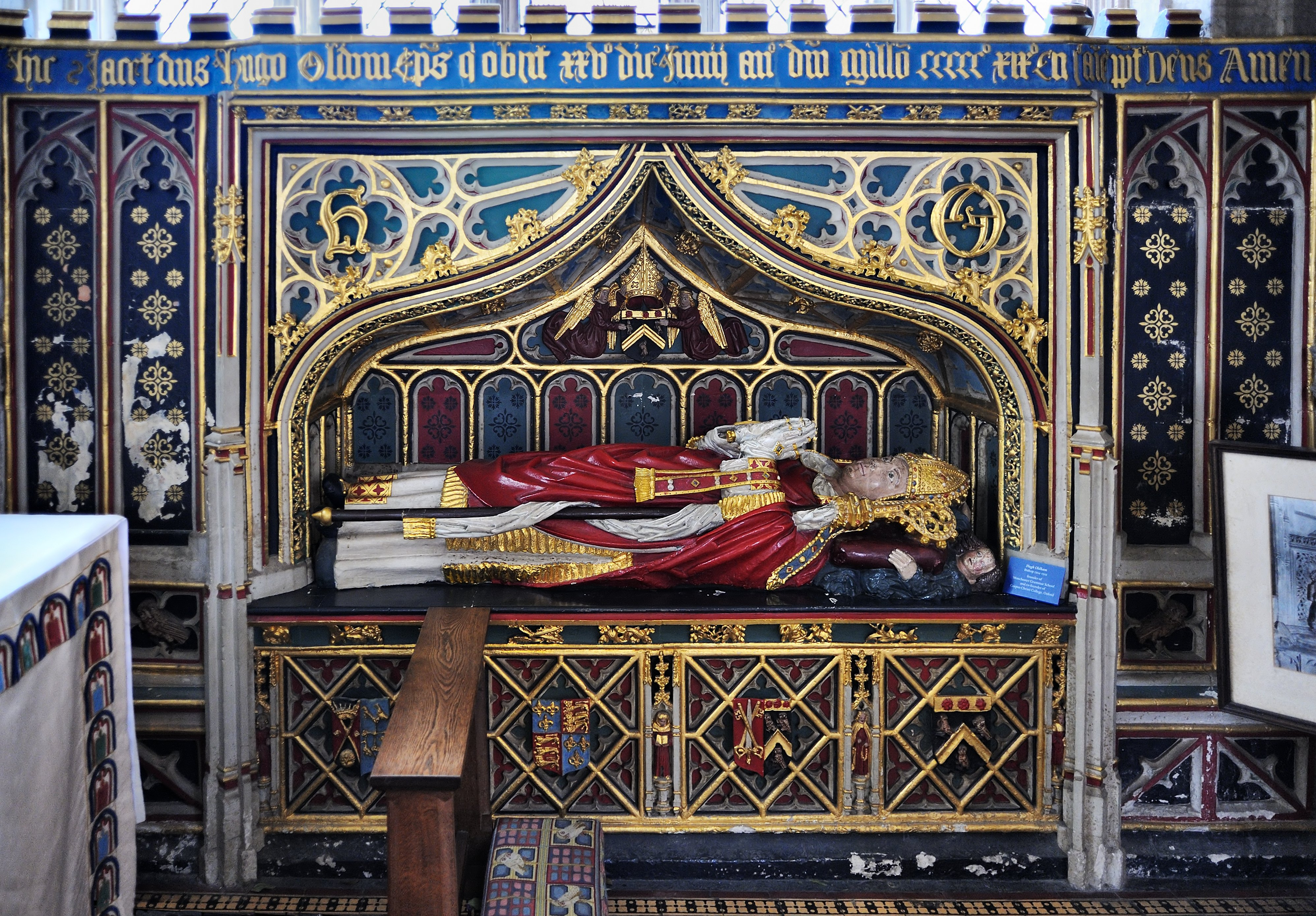 The tomb of Bishop Hugh Oldham (died 1519) in Exeter Cathedral, Devon, England